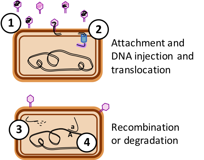 Schematic diagram of genetic transduction by bacterial Gene Transfer Agents